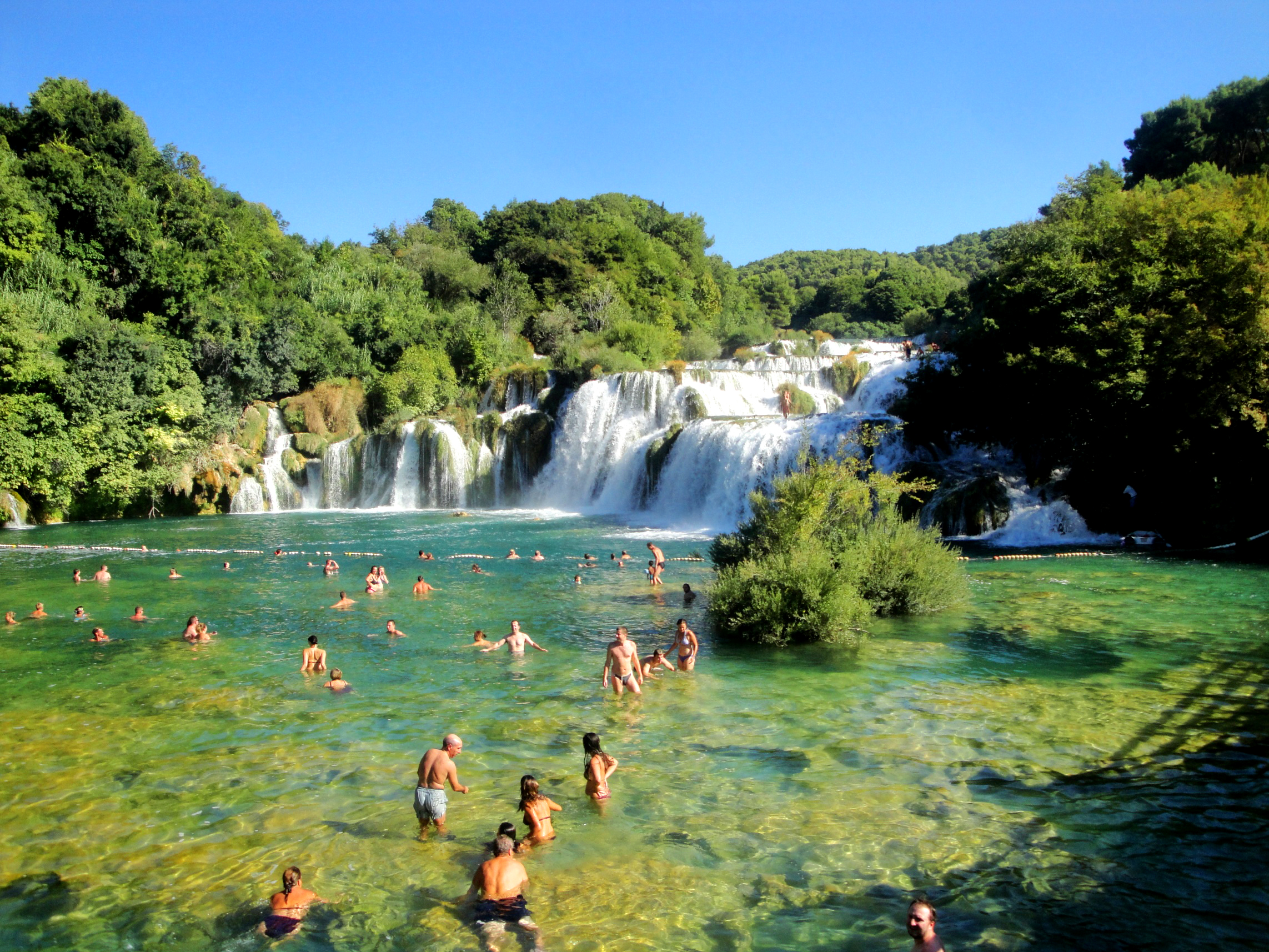 Krka National Park - Waterfalls